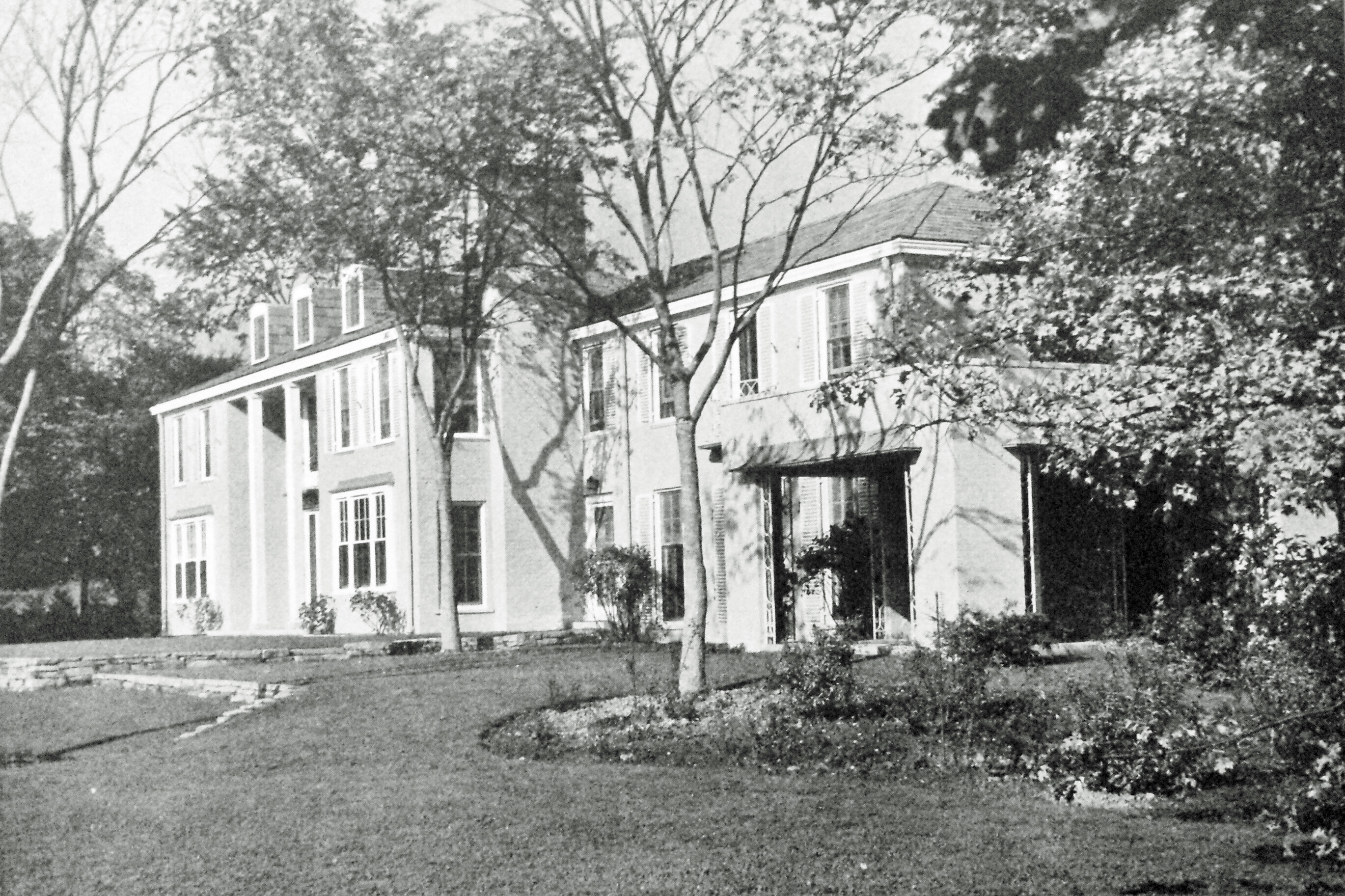 Residence of Max M. Gilman, President of Packard Motor Car Company (designed by Hugh T. Keyes, 1937)